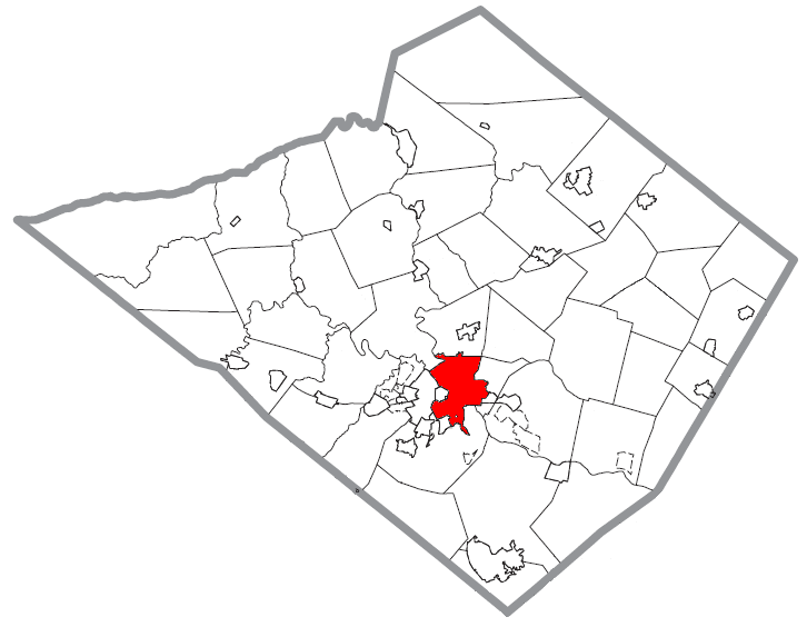 A map of Berks County showing Reading, Pennsylvania highlighted on the map.